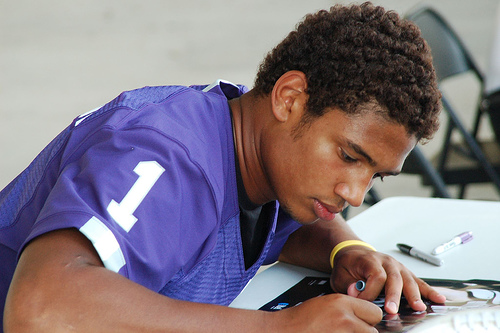 Josh Freeman at the Kansas State fan appreciation day in 2007.